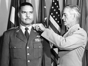 General Earle Everard Partridge pinning a general's star on Benjamin O. Davis from [1].